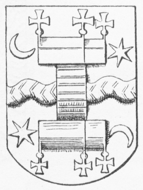 Coat of arms of Grenaa, a chartered town in Denmark, 14th century version. Illustration from the article Om danske By- og Herredsvaaben written by Anders Thiset and published in Tidsskrift for Kunstindustri 1893-1894.